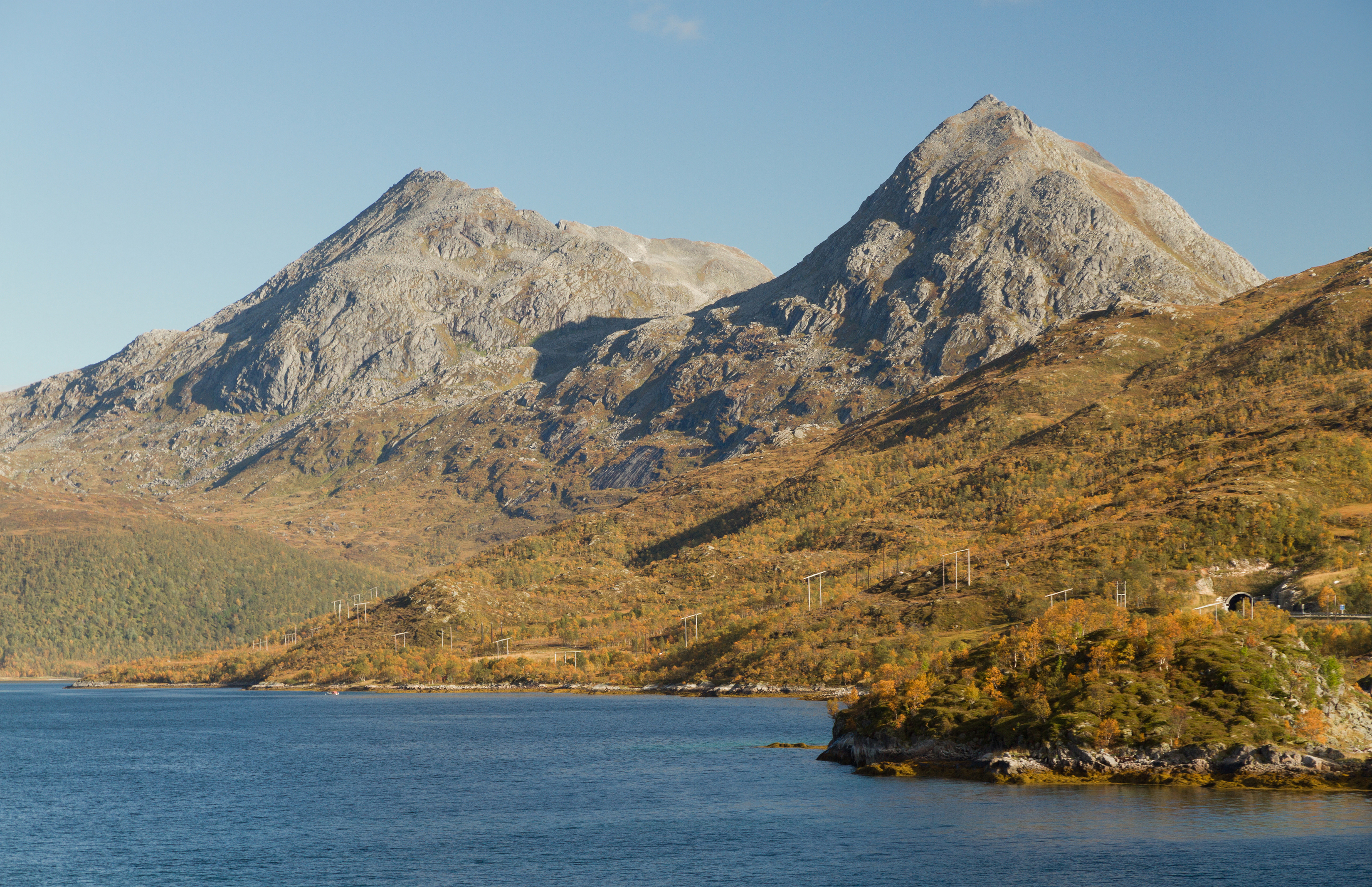 A couple of summits belonging to Botntindan group in autumn colors as seen over Innerfjorden, Nordland, Norway in 2015 September. Innerfjorden is the northern part of Øksfjorden. The mountains are located on island Hinnøya.